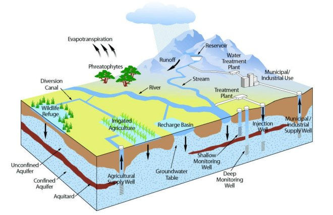 easy to read diagram of groundwater use and it's geography